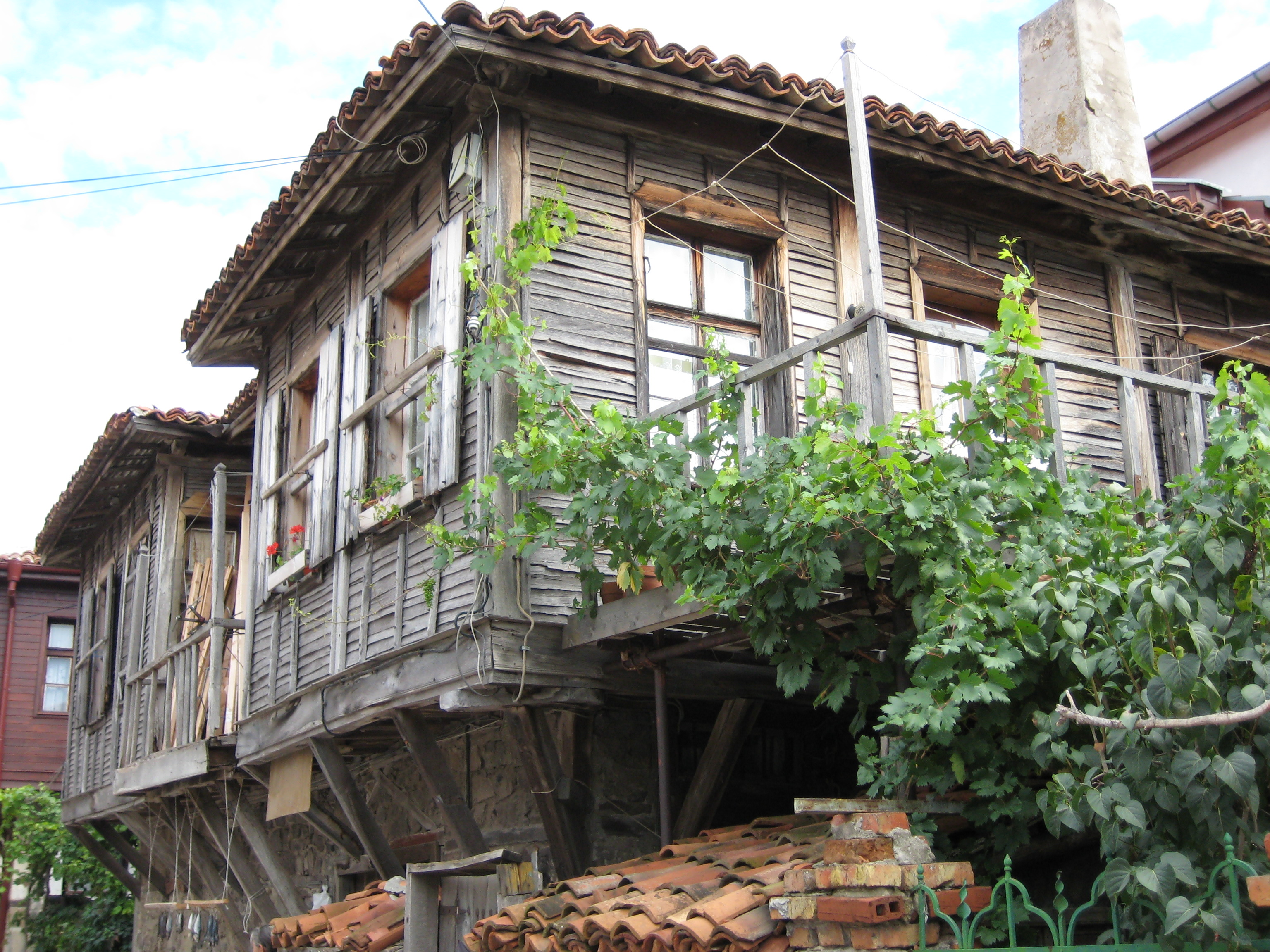 a typical building from bulgaria